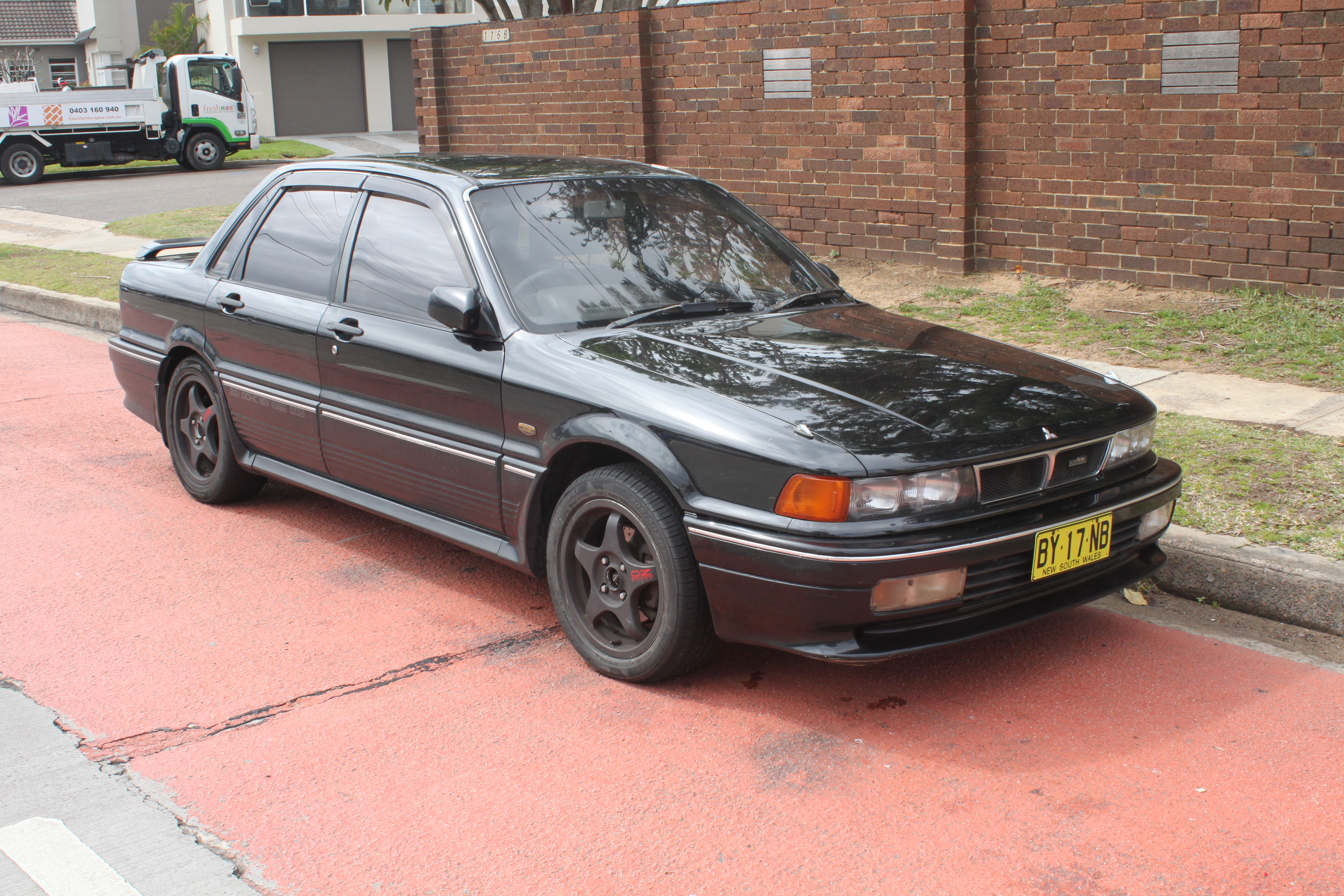 RTA records show this as a 1988 model. Redbook only shows these sold in Australia from 1990-1993, so assume this is a private import? Another clue is the MMC badge on the bootlid